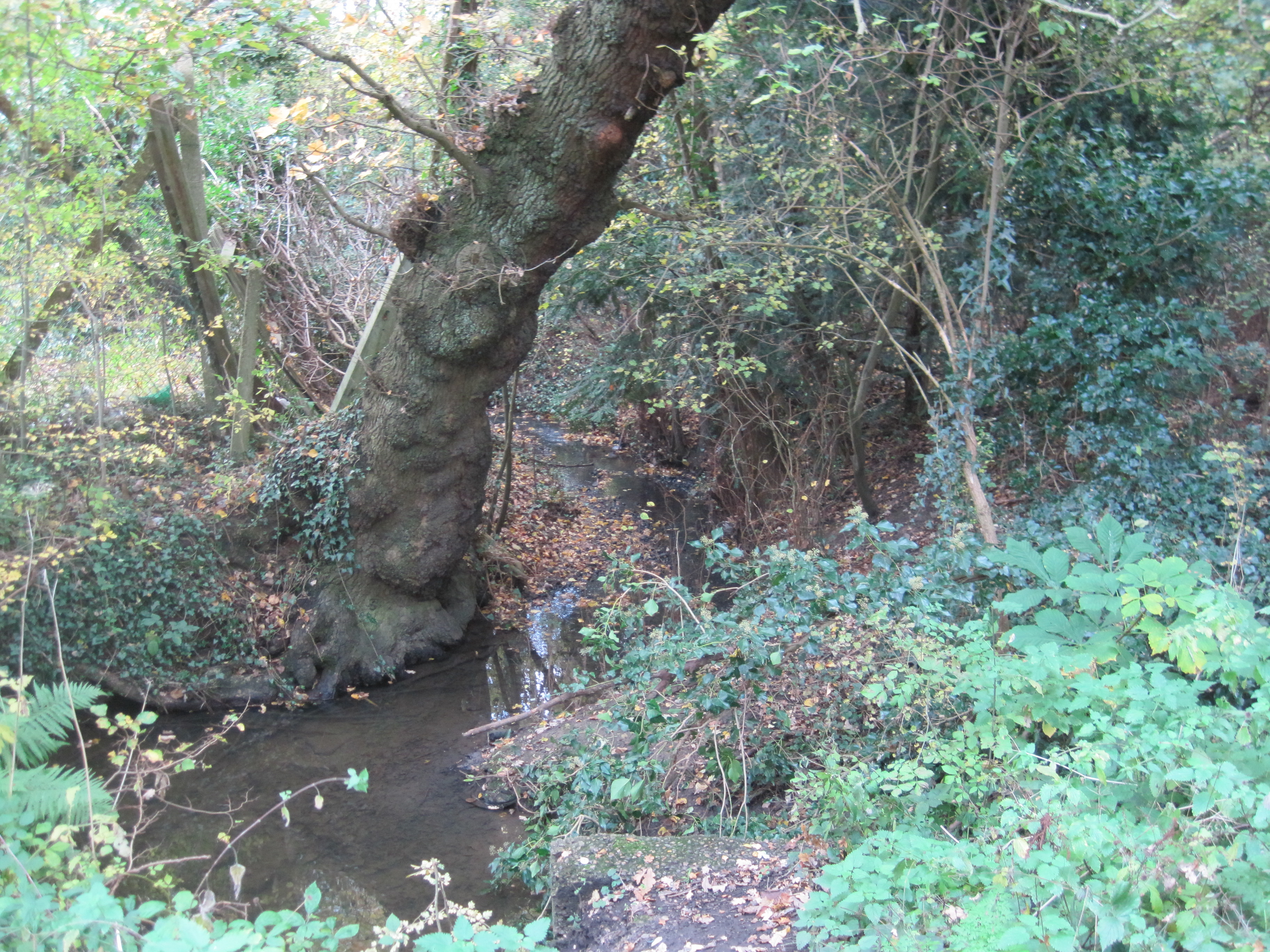 Stream in Ashley Lane, nature reserve in Hendon, Barnet, London